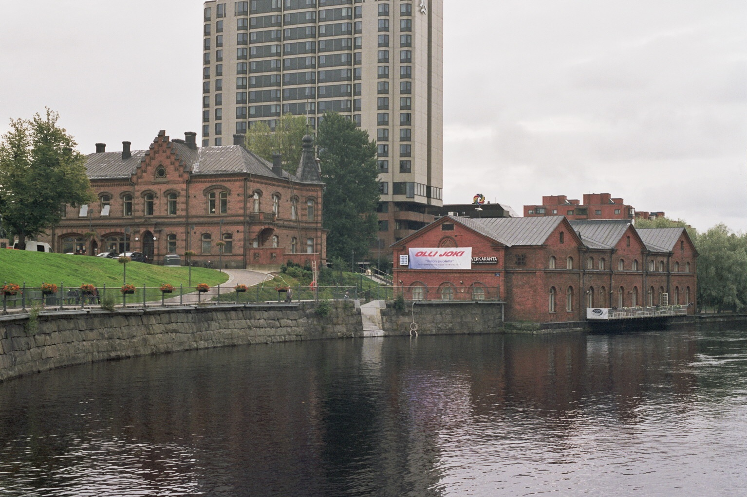 (Pending...)